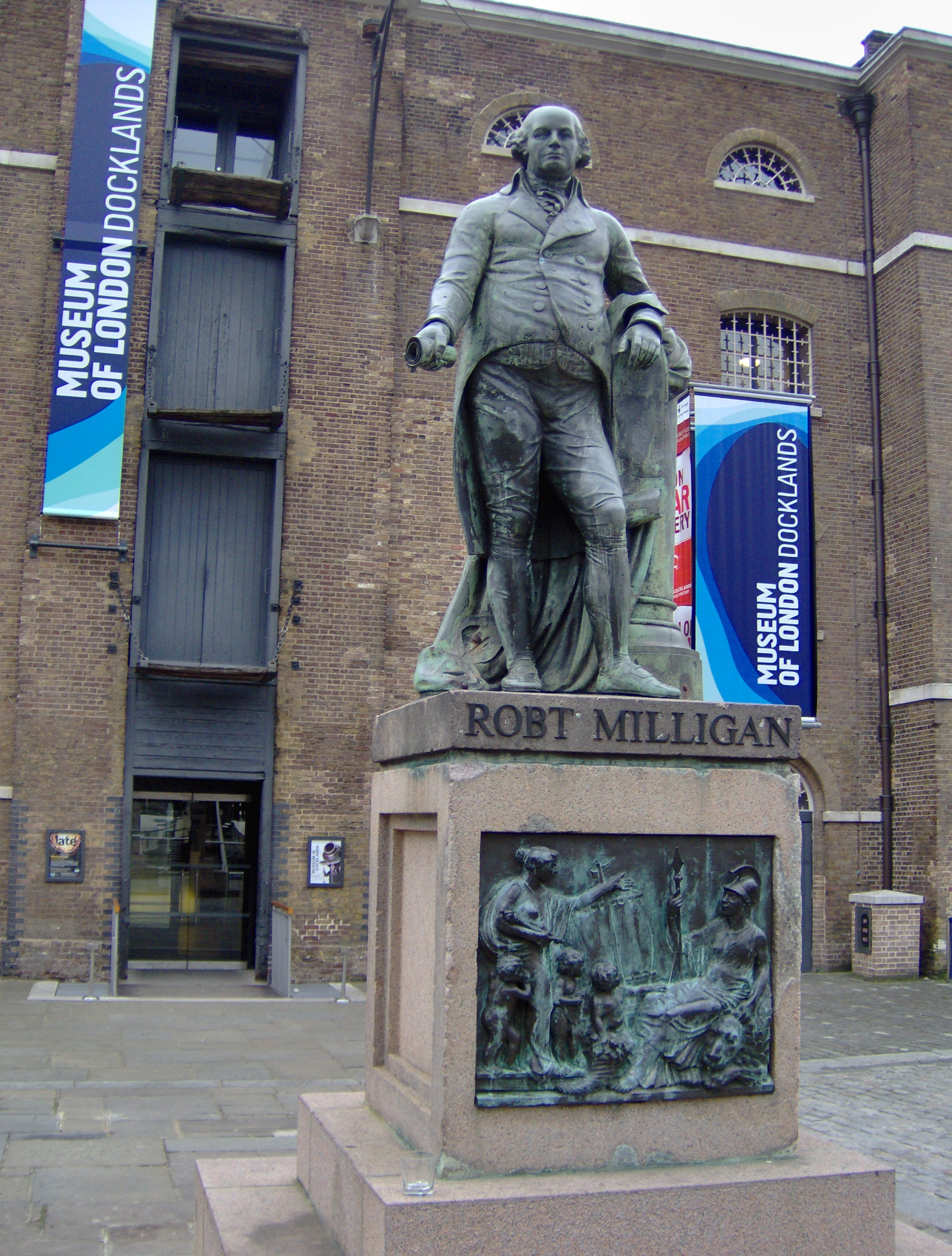 Statue of the English merchant Robert Milligan (1746-1809) in front of the Museum of London Docklands, West India Docks, East London